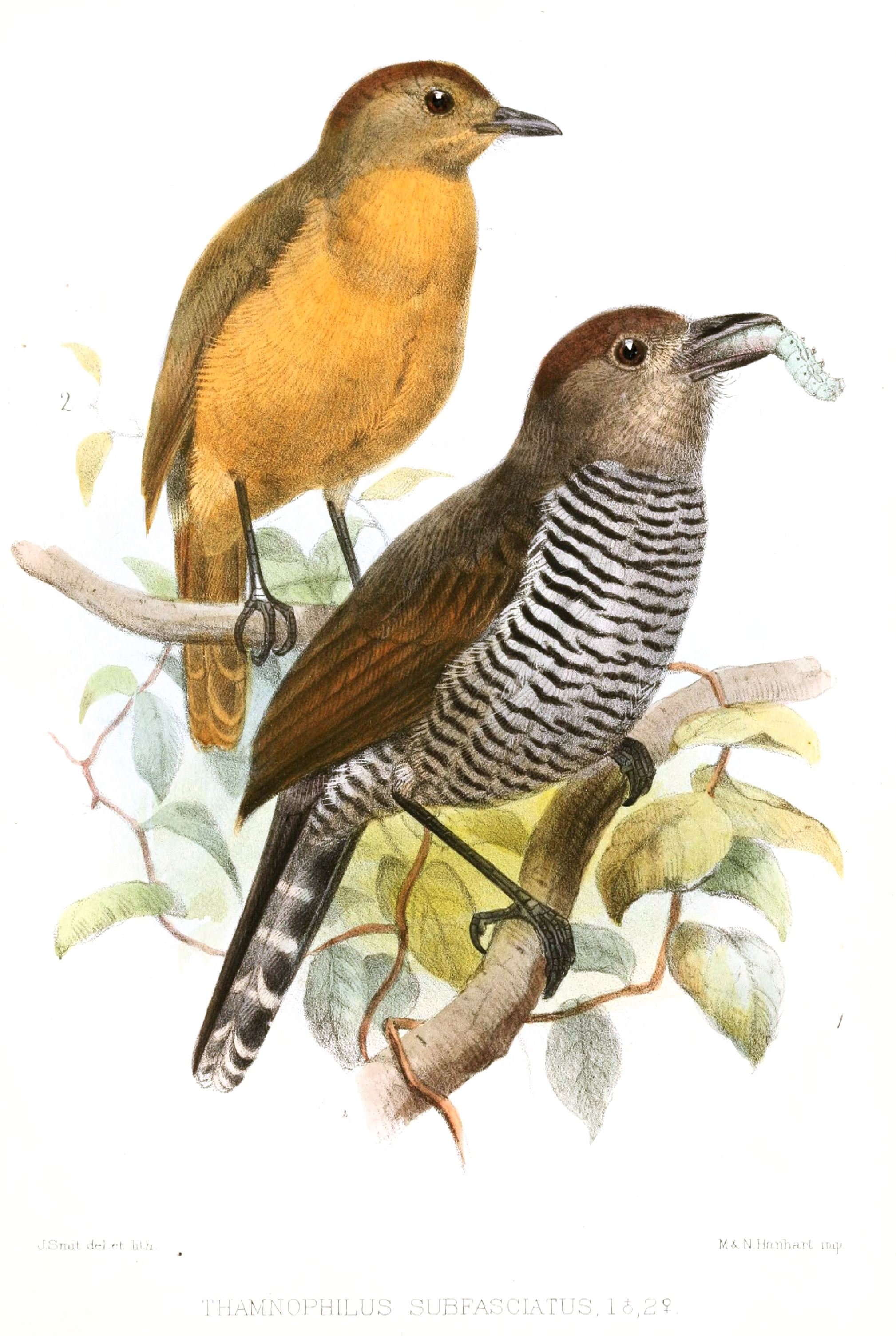 Thamnophilus subfasciatus = Thamnophilus ruficapillus subfasciatus